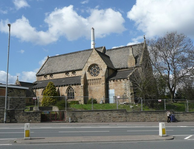 Disused church, Leeds Road A62, Fartown, Huddersfield This disused church is in a site, including a former chemical factory, that is currently being redeveloped.